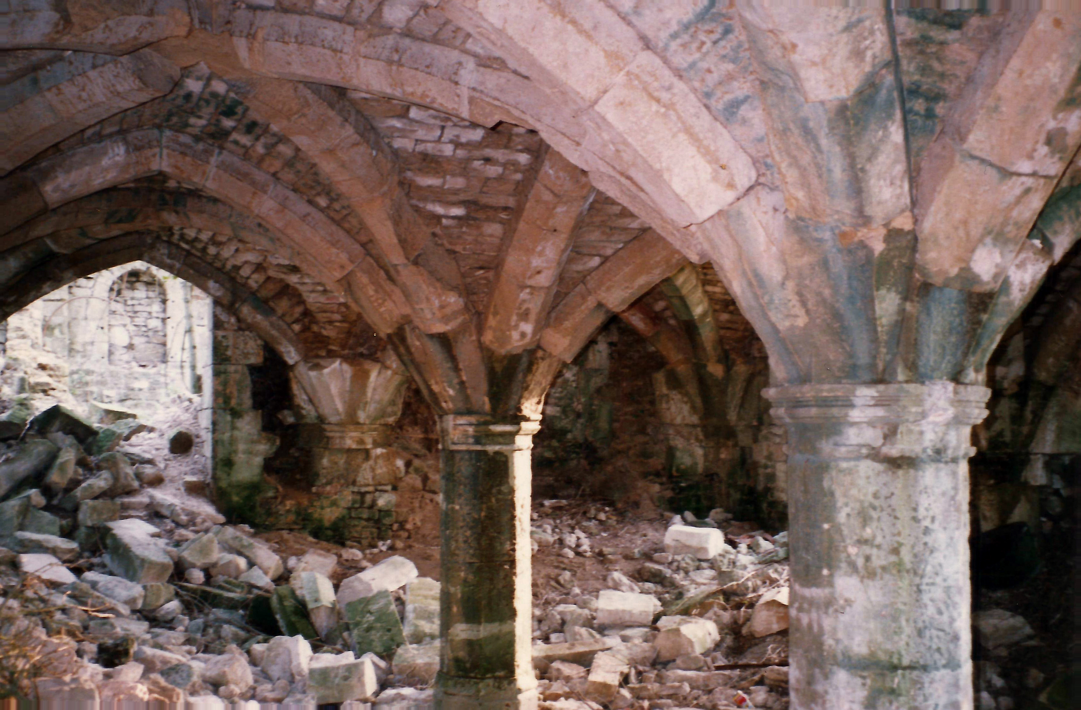 All that remains of Bradenstoke Abbey, its undercroft.